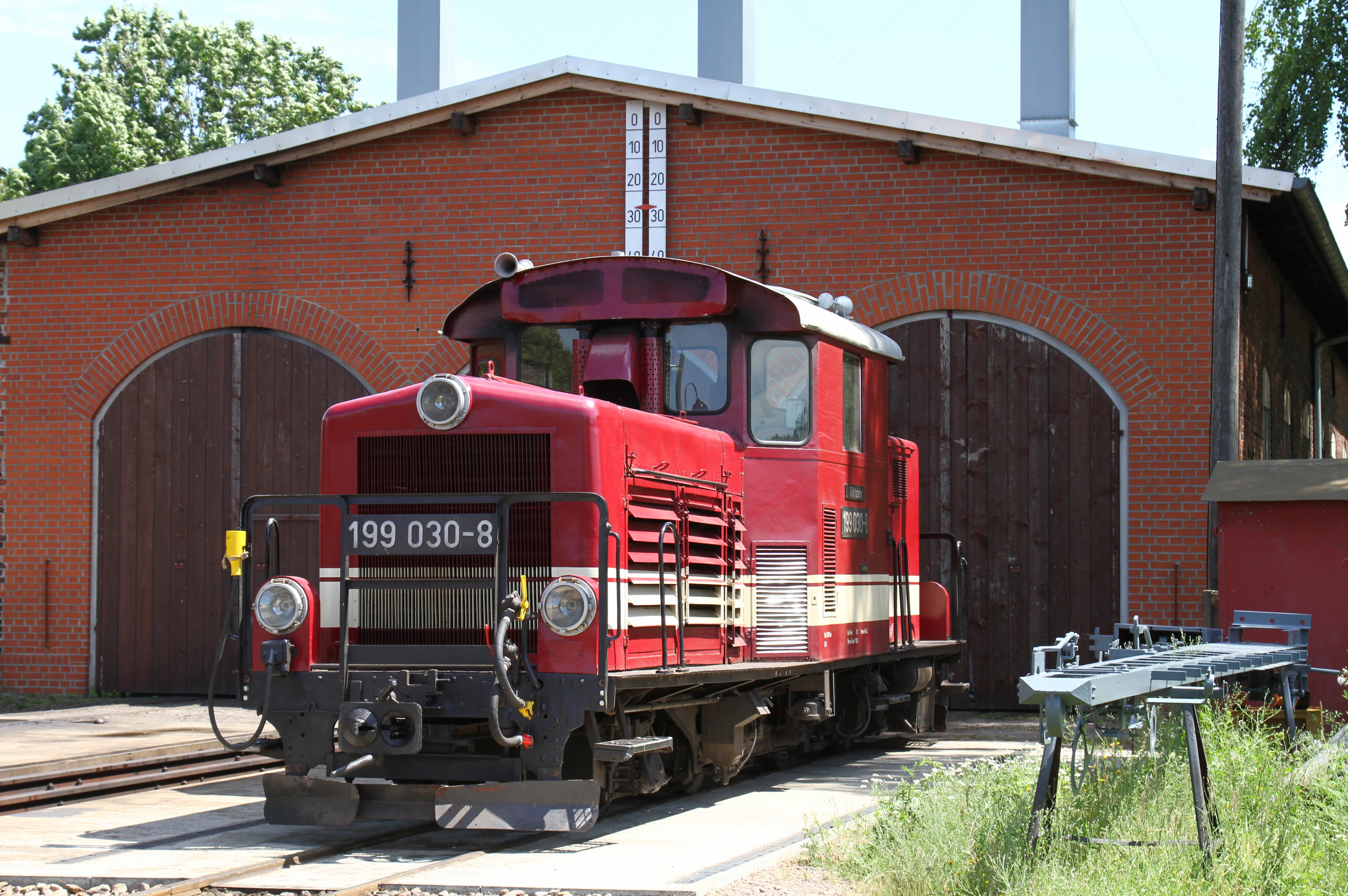 Döllnitzbahn 199.030 (ex ÖBB 2091.10) at Mügeln engine shed